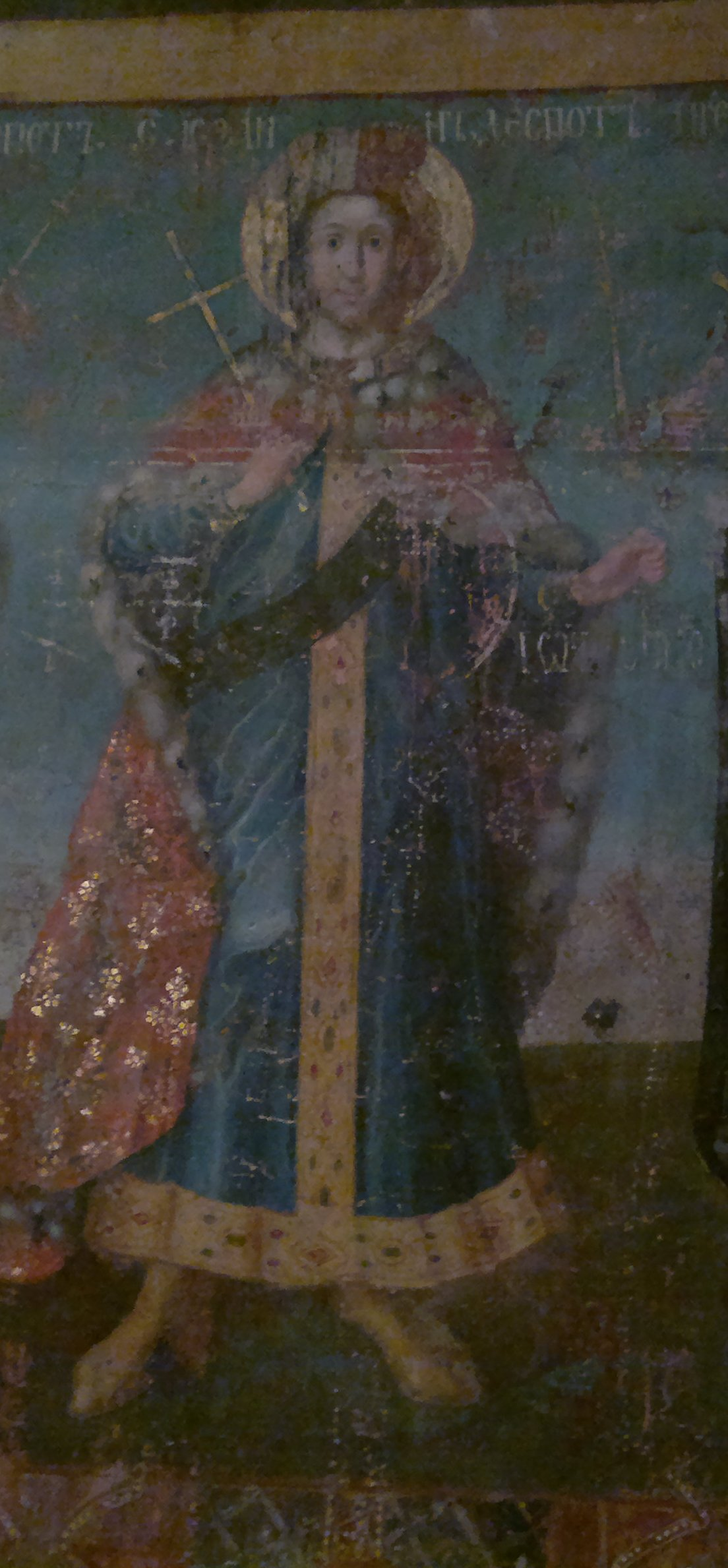 Frescoe of Despot Jovan Branković in Krušedol Monastery